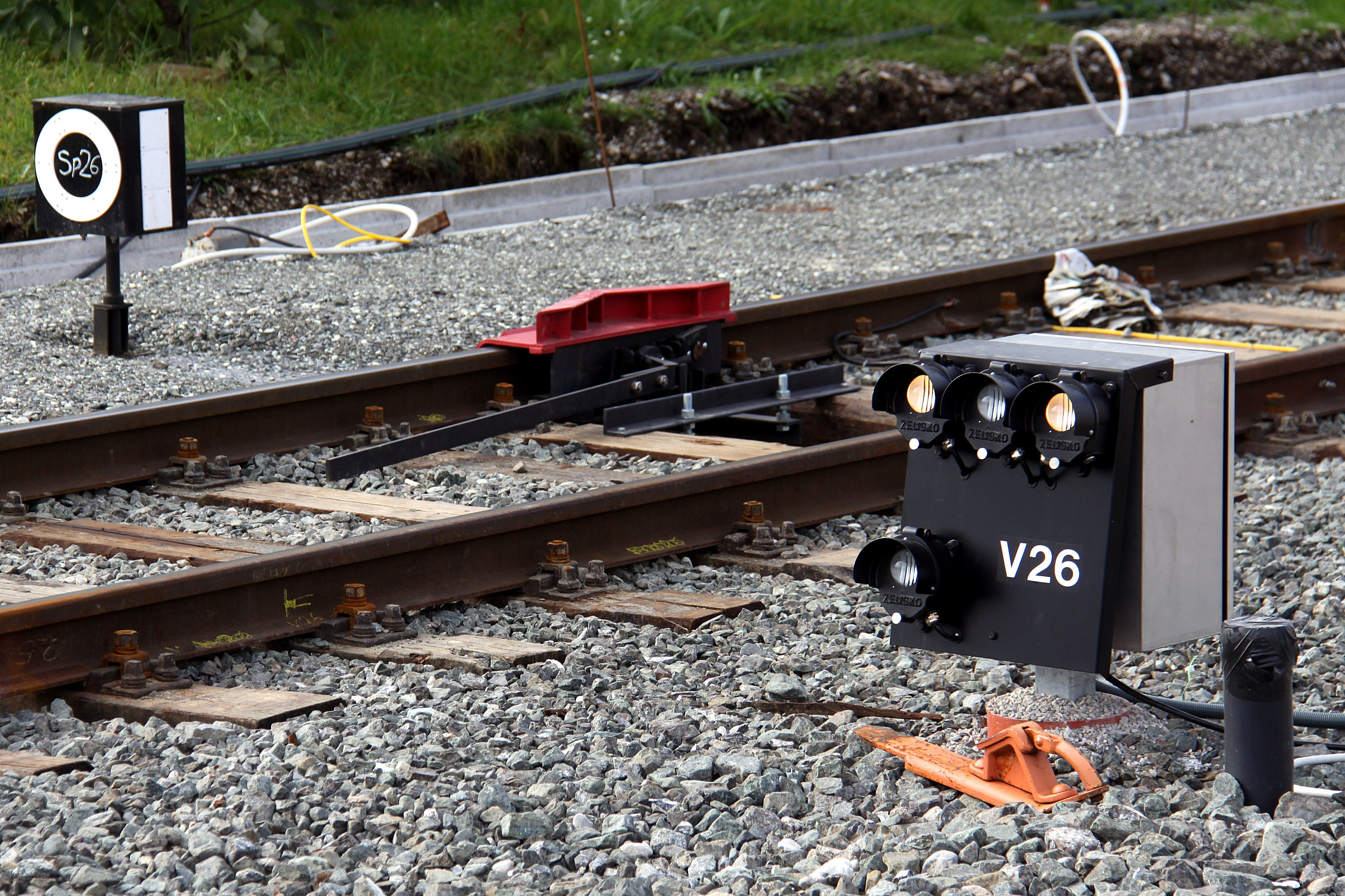 Total remodeling, renovation and modernization of Neunkirchen railwaystation.